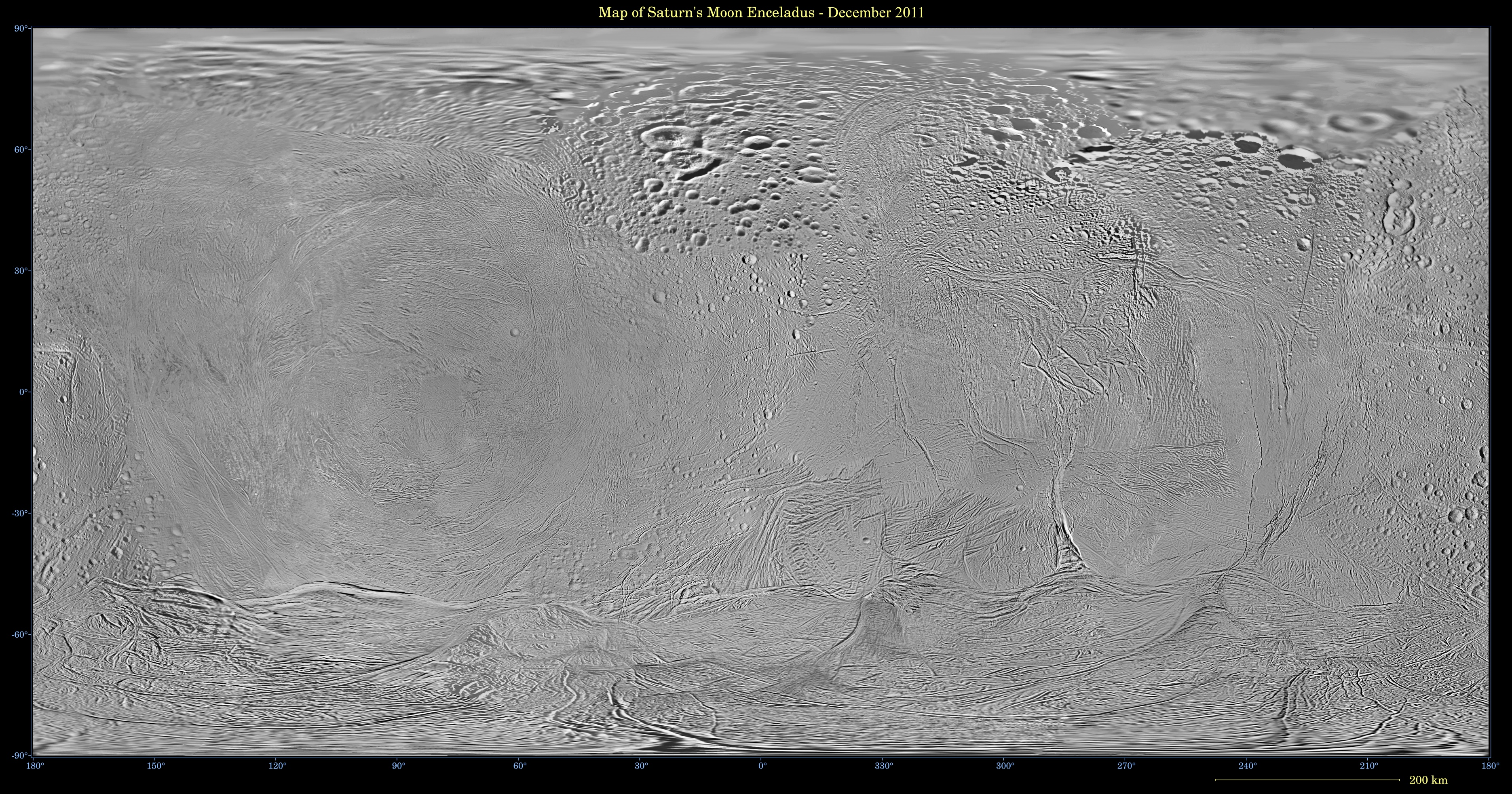 Map of Enceladus - December 2011 [quarter size] This mosaic shows an updated global map of Saturn's icy moon Enceladus, created using images taken during Cassini spacecraft flybys. The map incorporates new images taken during flybys in December 2011. This map is an update to the version released in February 2010 (see PIA125694). Like other recent Enceladus global maps, this mosaic was shifted by 3.5 degrees to the west, compared to 2006 versions, to be consistent with the International Astronomical Union longitude definition for Enceladus. The so-called "tiger stripe" features that have captivated Cassini scientists can be seen distorted by the projection method in the lower middle left and lower middle right of the image. The map is an equidistant (simple cylindrical) projection and has a scale of 360 feet (110 meters) per pixel at the equator. The mean radius of Enceladus used for projection of this map is 157 miles (252 kilometers).